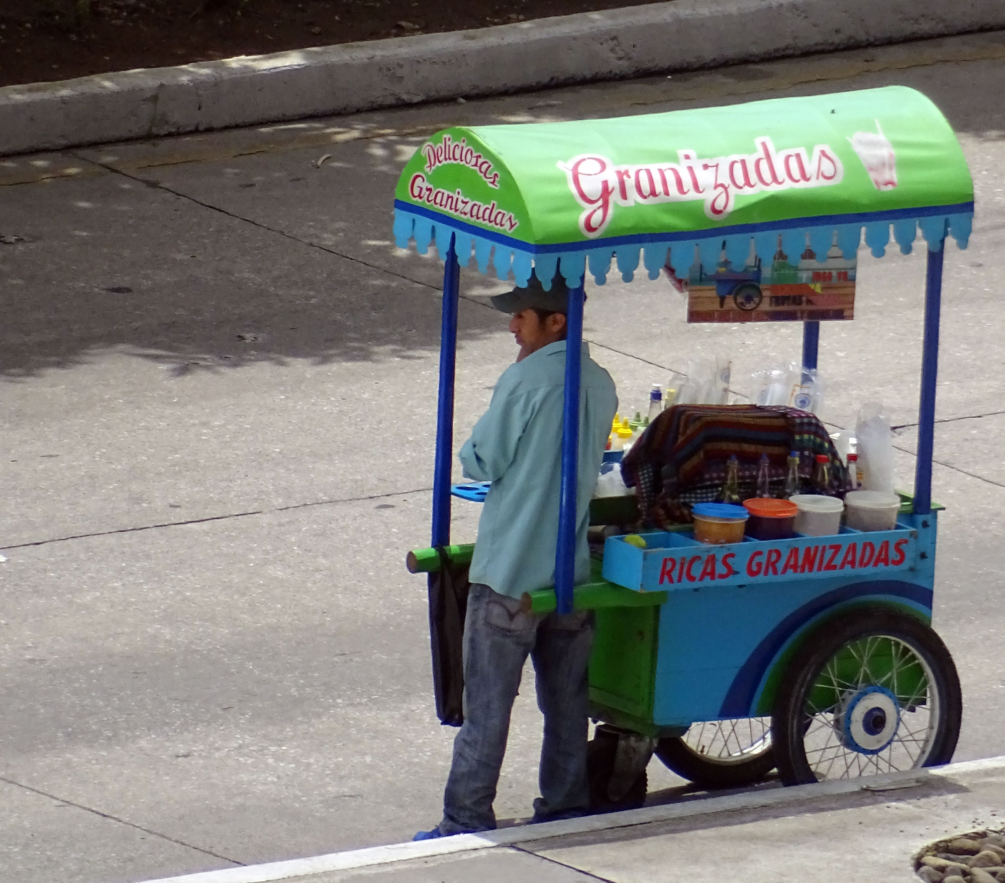 Granitas vendor in an avenue of Guatemala City